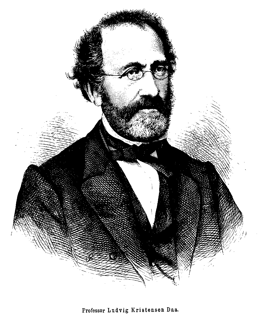 Norwegian historian and politician Ludvig Kristensen Daa. Engraving.